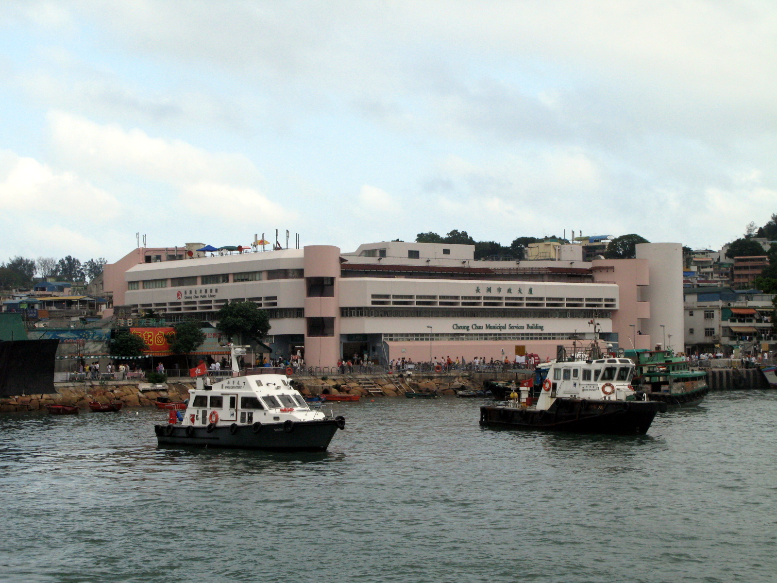 HK Cheung Chau Municipal Services Building